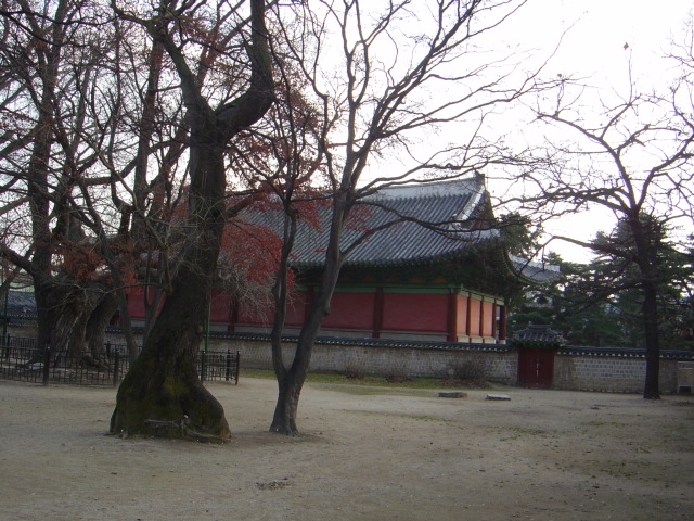 The main plaza of the Seonggyungwan, the National Confucian Academy of the Joseon Dynasty, in Seoul. Taken by Visviva.